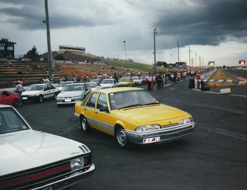 A photo from a Legal Off Street Drag Racing night at Calder Park.